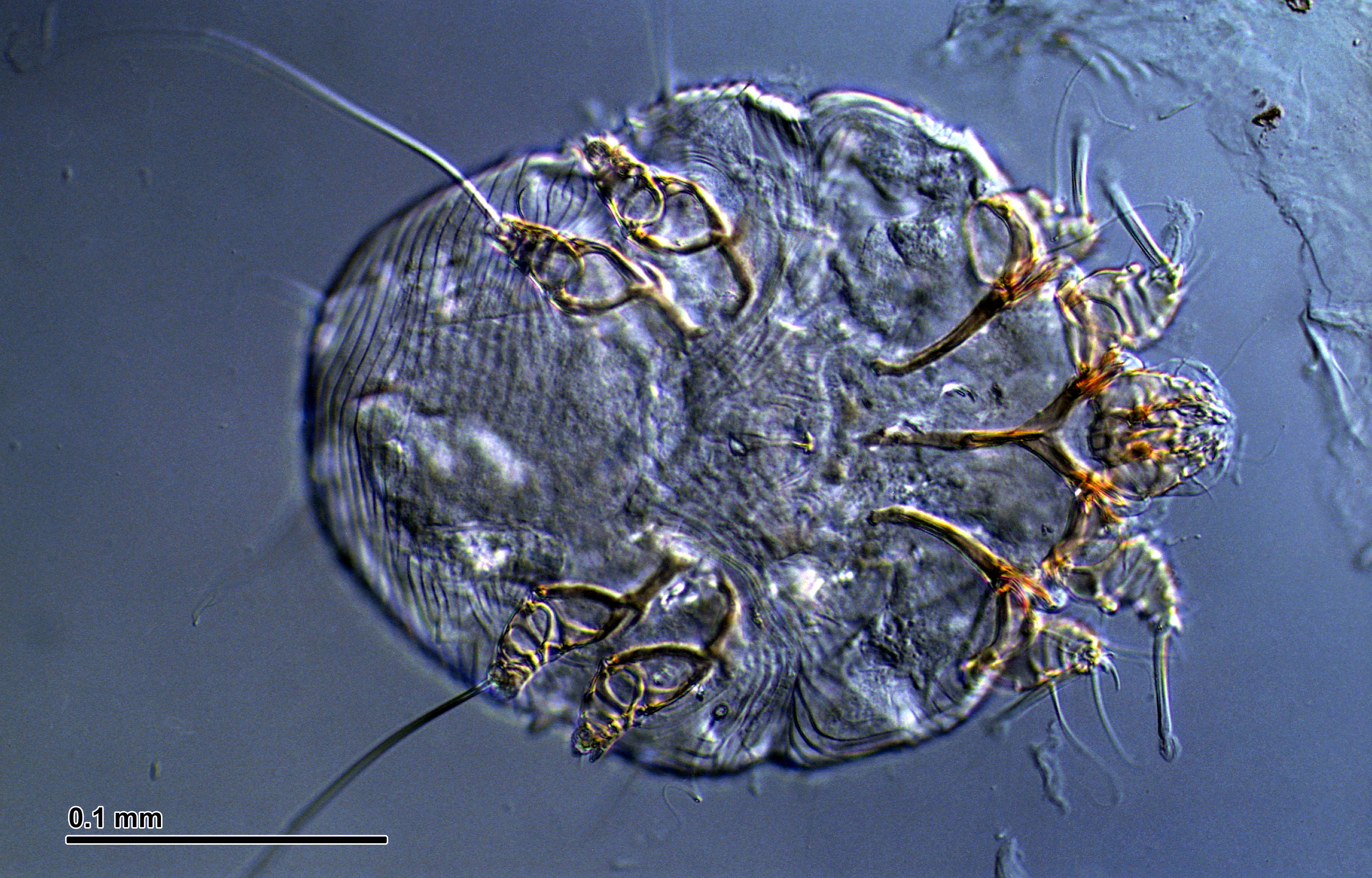 Itch mite (Sarcoptes scabiei). Optical microscopy technique: Differential interference contrast (Nomarski). Magnification: 600x (for picture width 26 cm ~ A4 format).